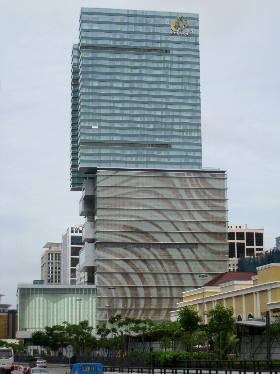 Macau StarWorld Hotel 星際酒店